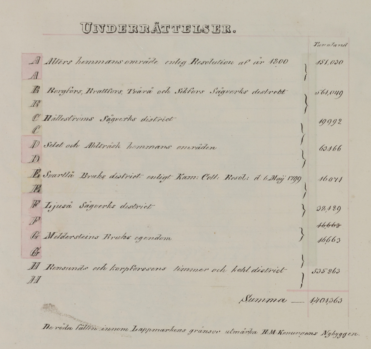 Legend to a map of the territorial possessions of the iron and wood company Gällivareverken. The map was published in "Kartor och ritningar över HM Konungens egendomar i Norrbotten och Luleå Lappmark," by Franz von Scheele 1828.